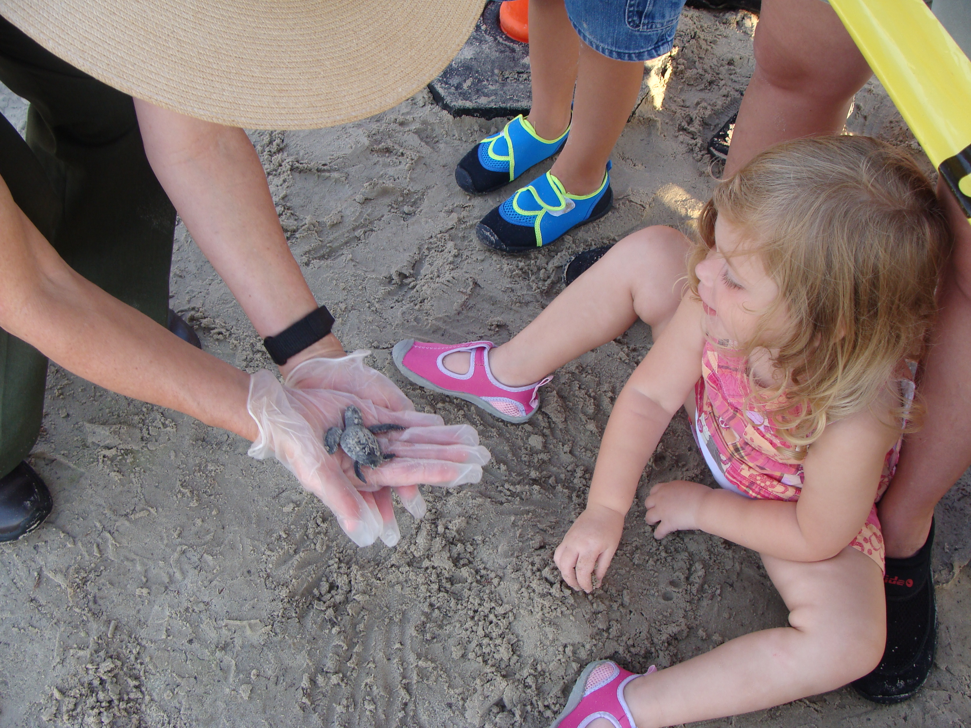 Kemp's Ridley is an extremely endangered Sea Turtle. The US National Park Service every year hatches these turtles and releases them to the sea after incubation to help increase their numbers. Seen here is an annual "Sea Turtle Hatchling Release" event at Padre Island National Seashore. more info about event here